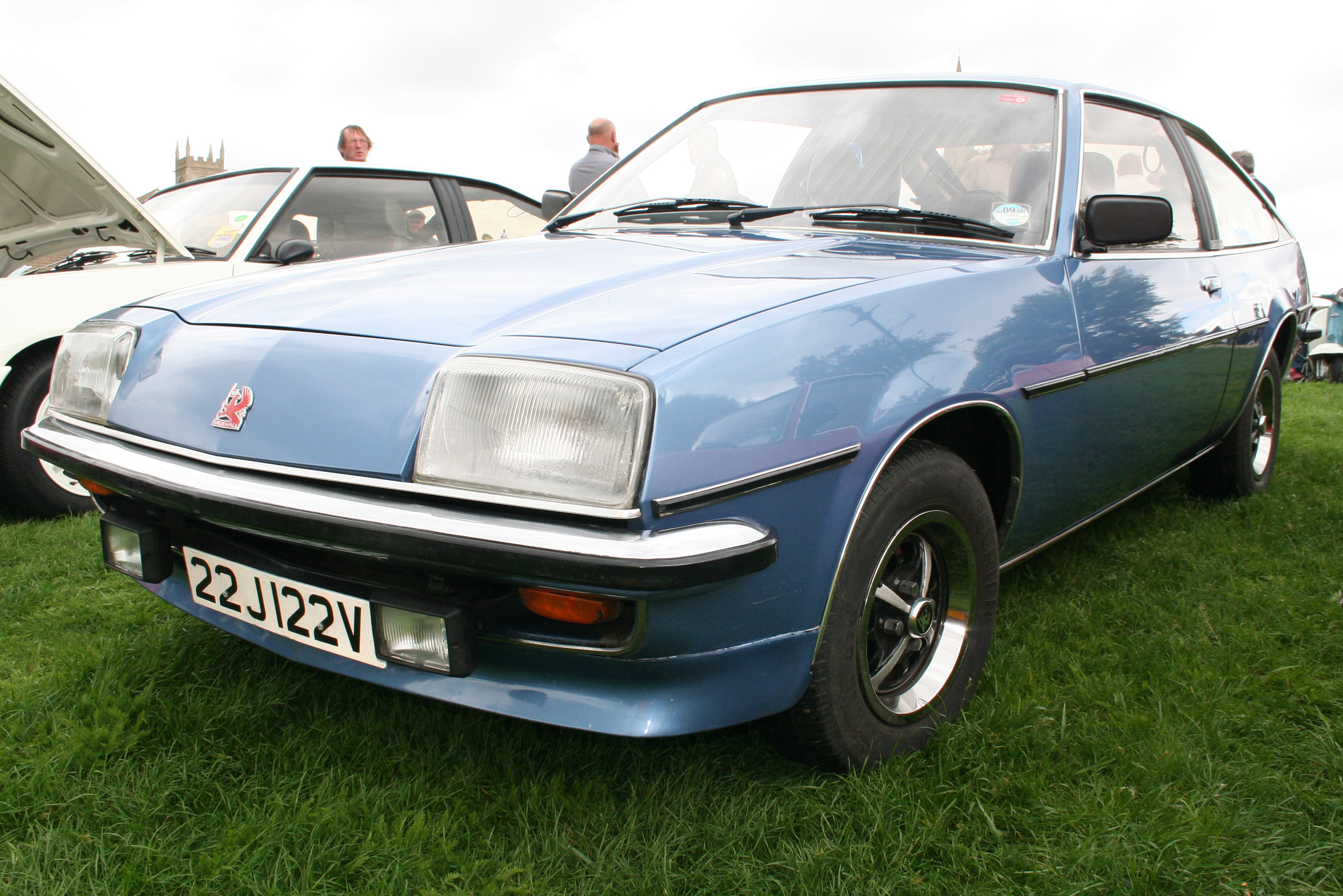 3 door Vauxhall Cavalier Hatch/Liftback (Opel Manta B for the British isles)